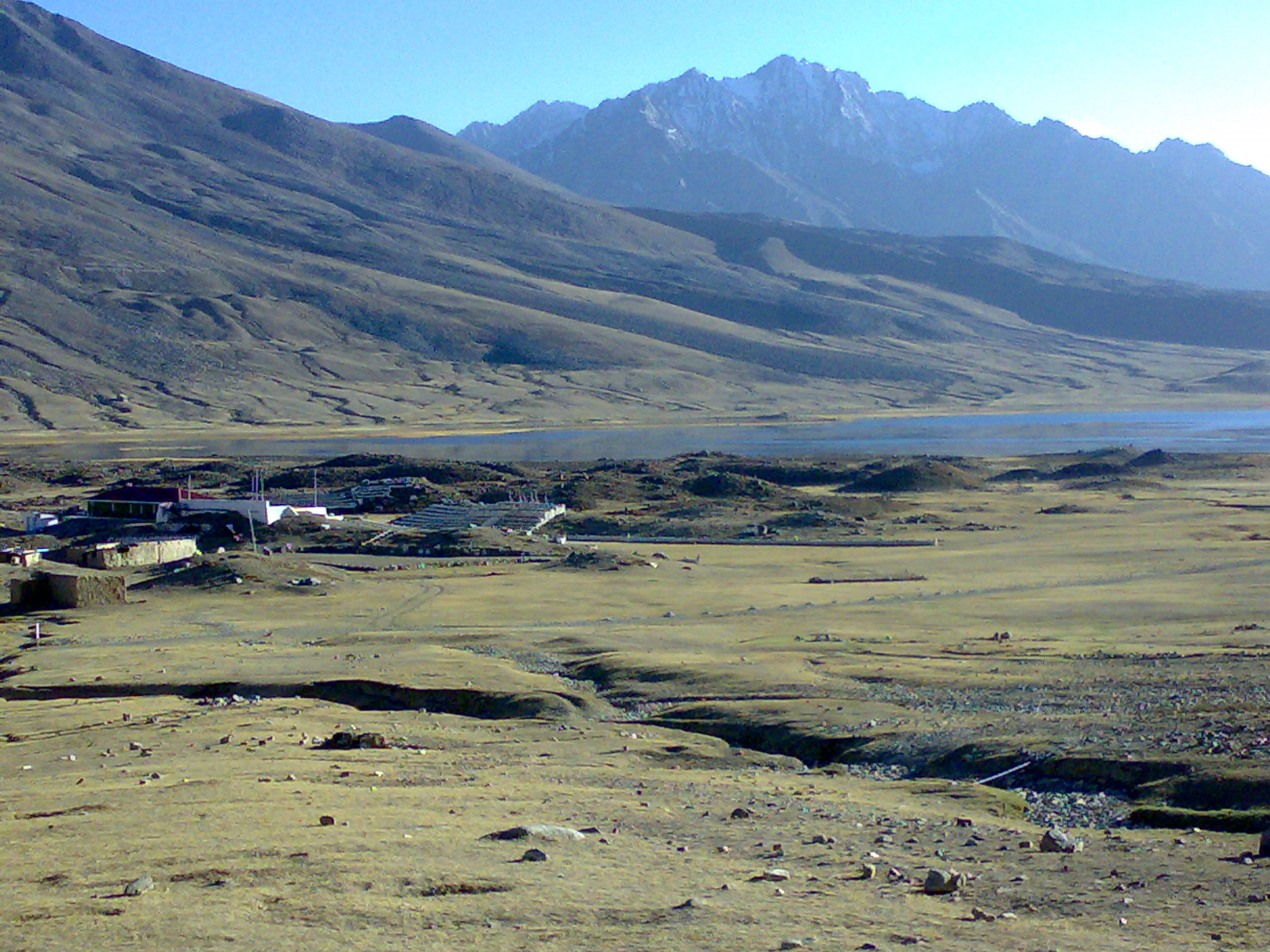 Shundor is the dispute area between Gilgit-Baltistan and Chiral valley. It is the world highest polo ground.